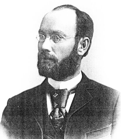 portrait of Francis Preserved Leavenworth